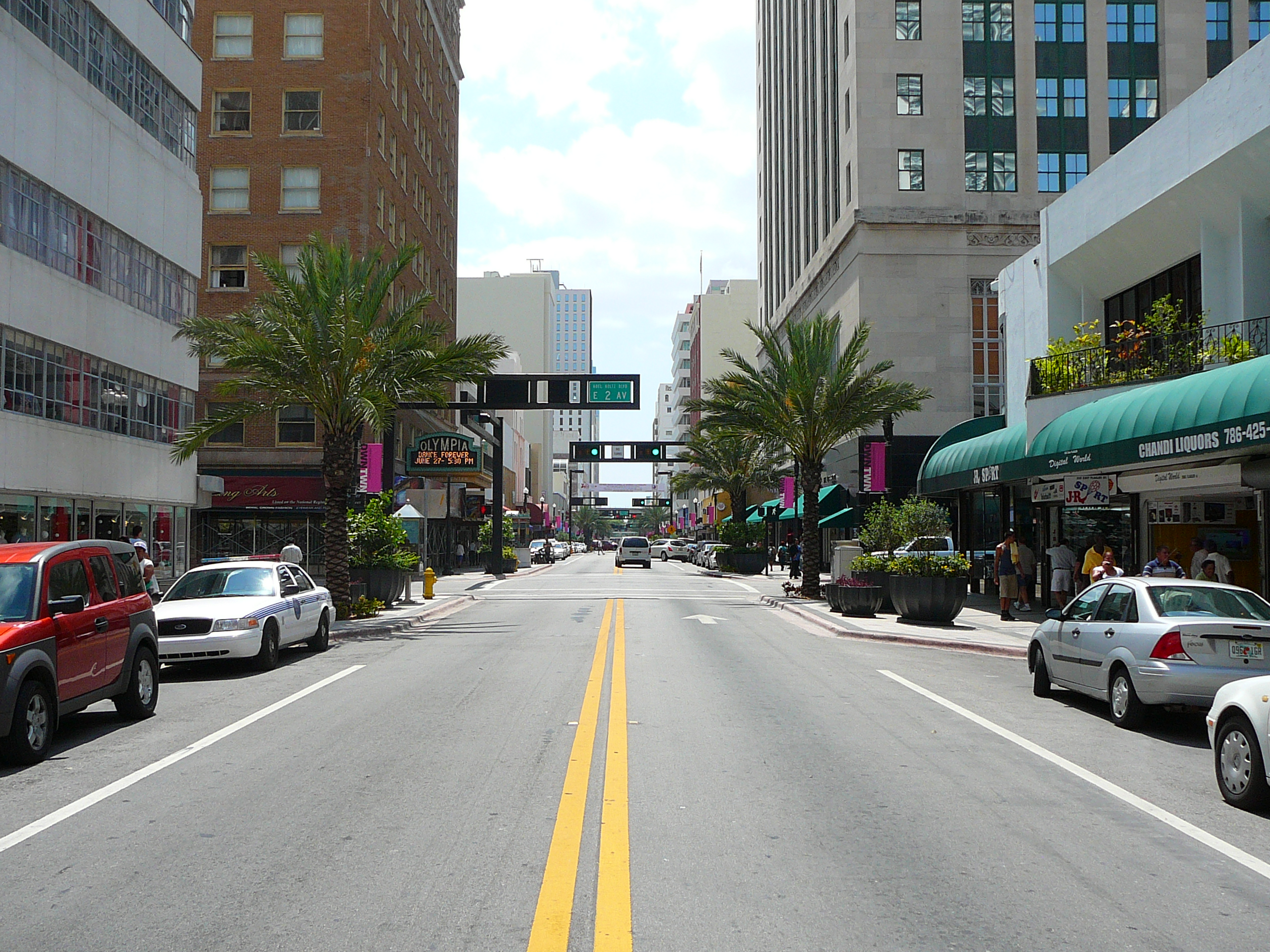 Digital photo taken by Marc Averette. Flagler Street in downtown Miami 5/14/2008